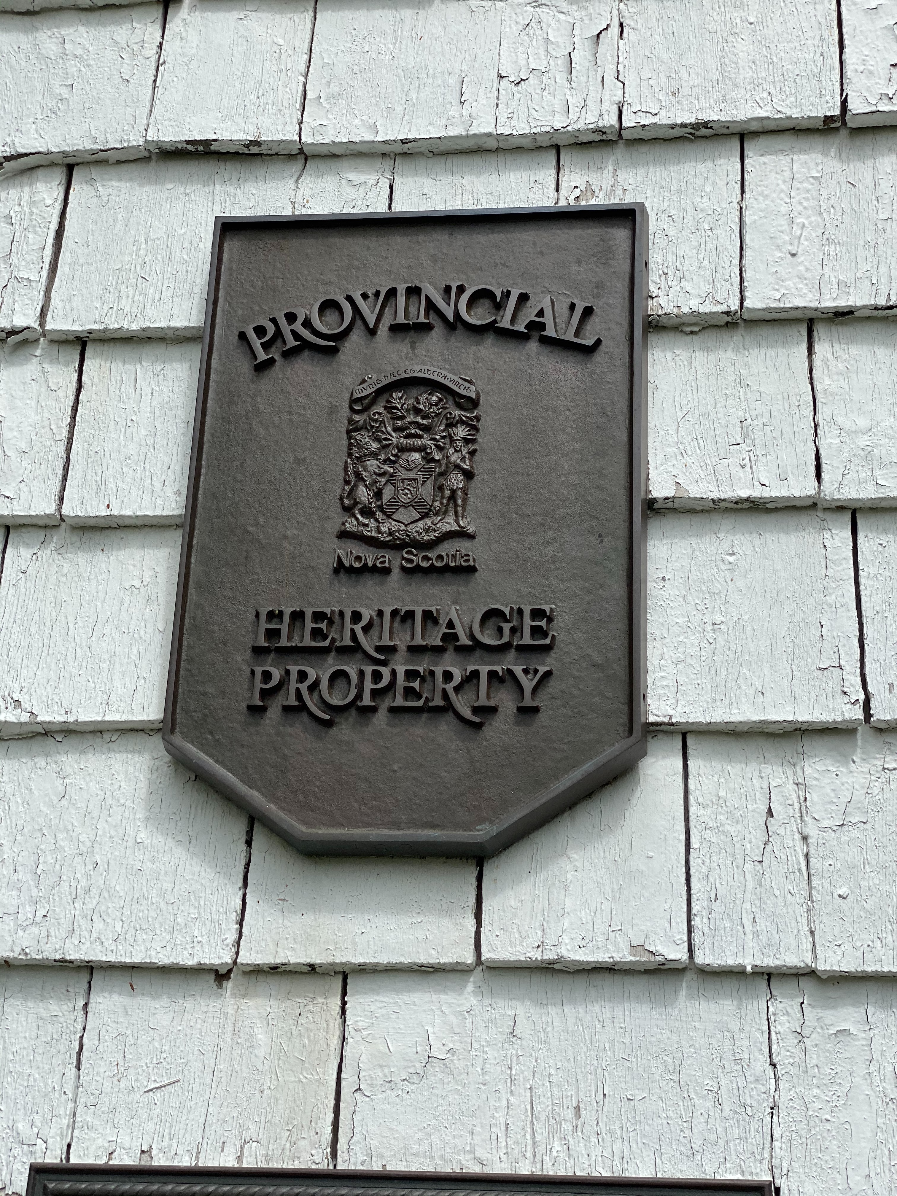 The Mount Hanley School Section No. 10". The school house was part of a large-scale expansion of rural schools in Nova Scotia in the 1850s.